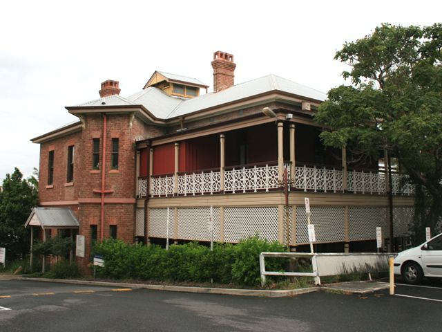 The Lady Norman Wing of the Brisbane General Hospital Precinct